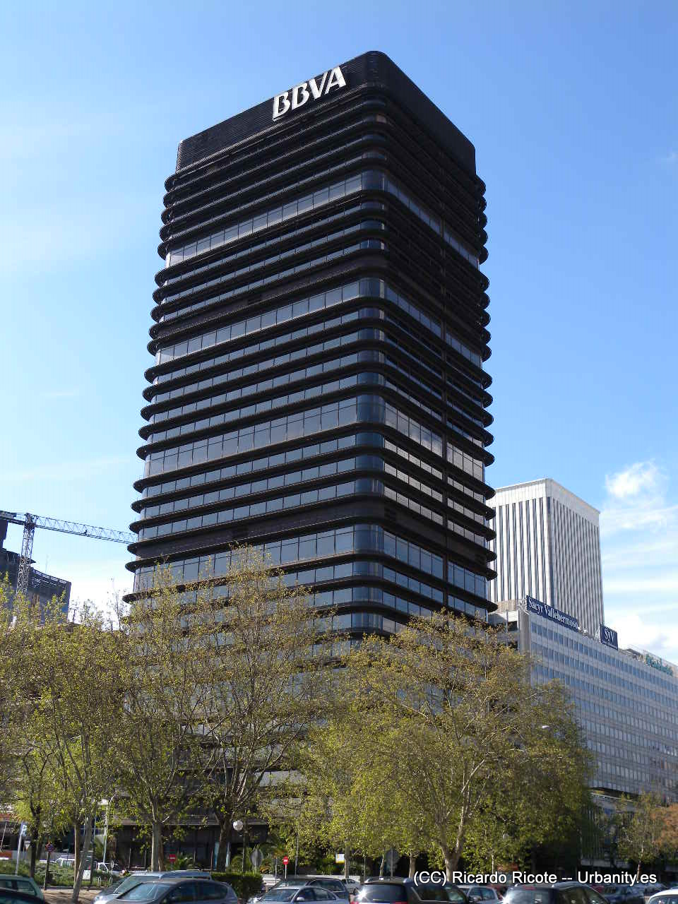 Torre BBVA